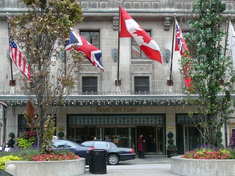 The Royal York Hotel, or Fairmont Royal York as it is now known, is a historic up-scale hotel and landmark in Toronto. The builiding, erected on the site of an even older hotel, opened in 1929 and at the time was the largest building in the British Empire. The hotel still exudes a distinctly colonail feel - much like its cousins the Empress Hotel in Victoria, or the Chateau Laurier in Ottawa. You can't see it from this picture, but the Royal York is directly across the street from the main Toronto train and subway stations at Union Station, and the contrast between the quiet, orderly scene in front of the hotel, and the mayhem of pedistrians and taxi stands in front of the station makes for an interesting urban scene - especially around afternoon rush hour.